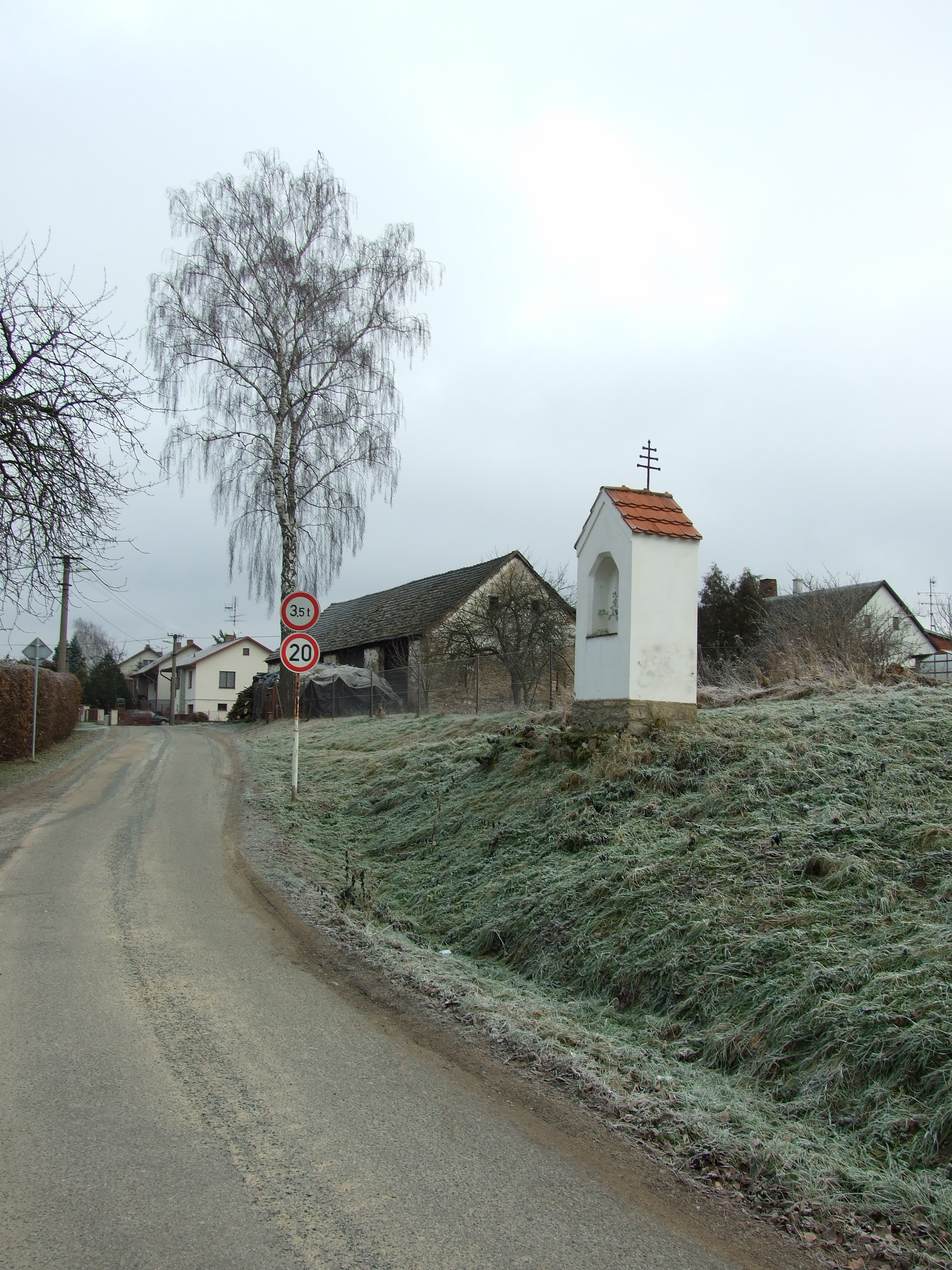 Dolní Skříchov, one of the city parts of Jindřichův Hradec, South Bohemian Region, CZhelp